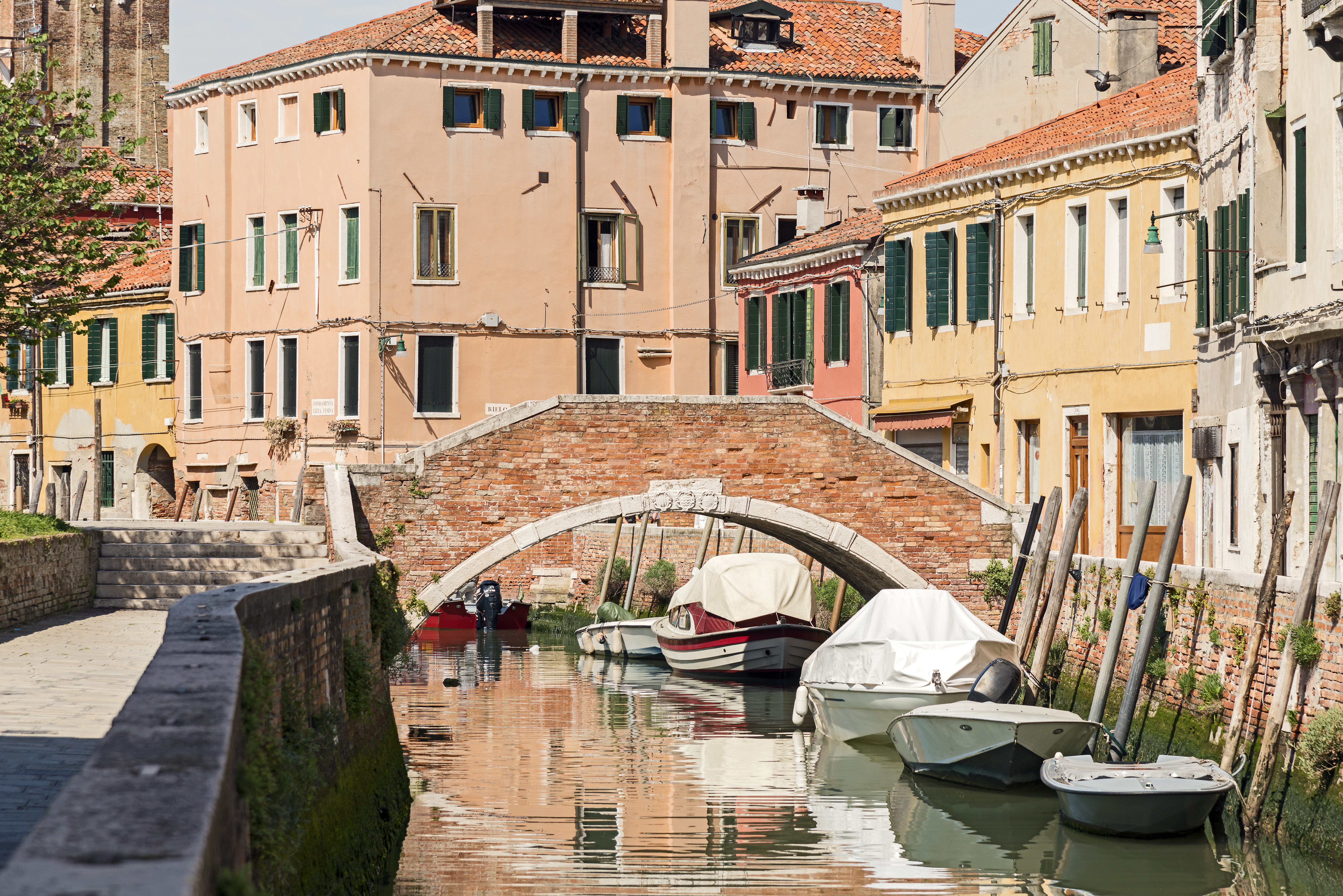 Ponte de la Piova on Rio dell'Angelo Raffaele - Venice